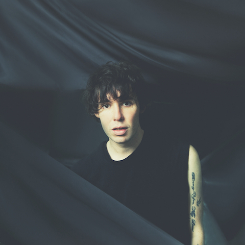 Official promotional photo of Jack Colwell distributed by the artist and his manager.